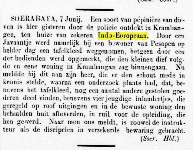 First use of the term Indo-Europeaan in a newspaper in Dutch East India